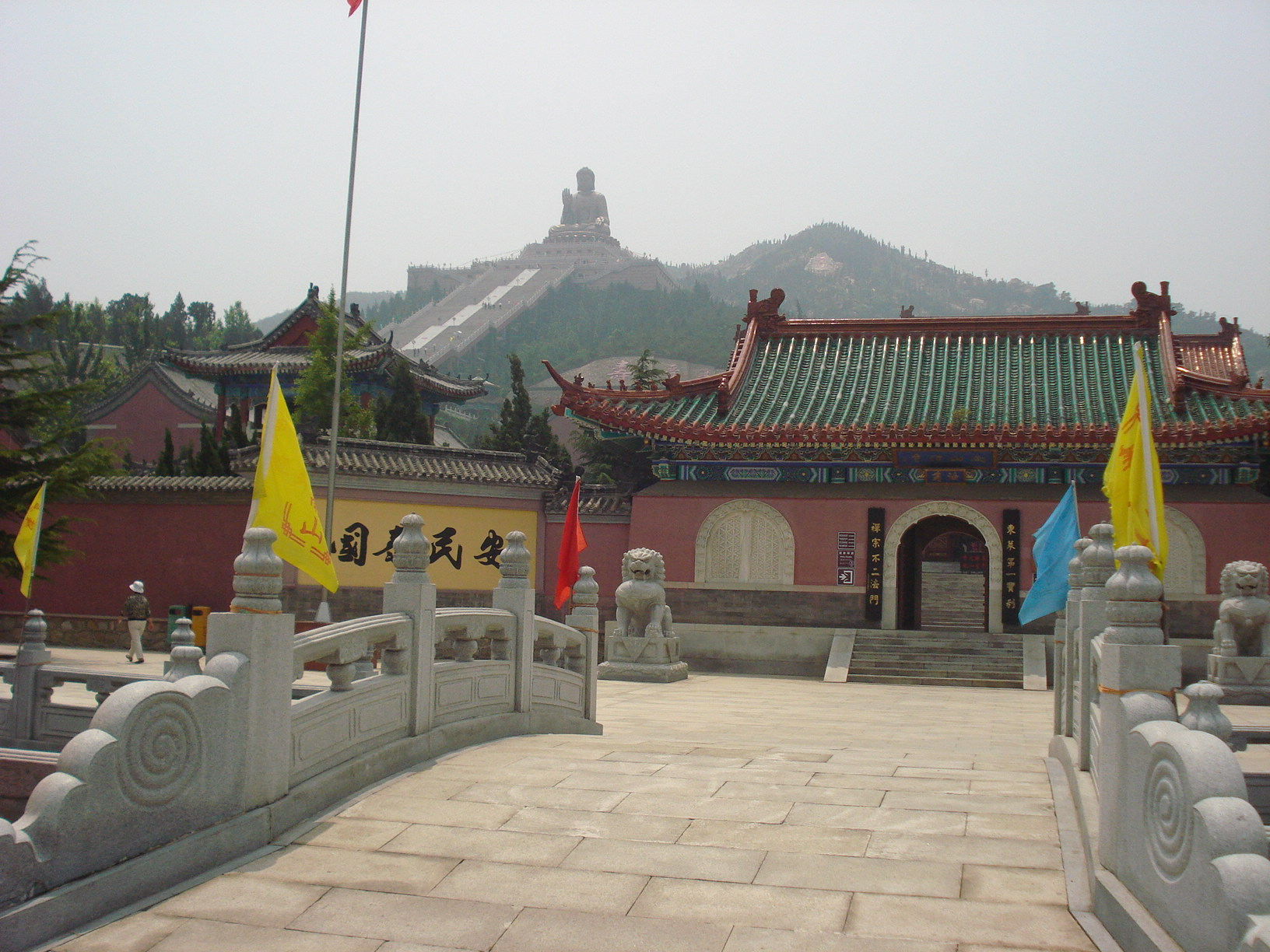 Nanshan Chan temple and Big Buddha statute, Longkou, Yantai